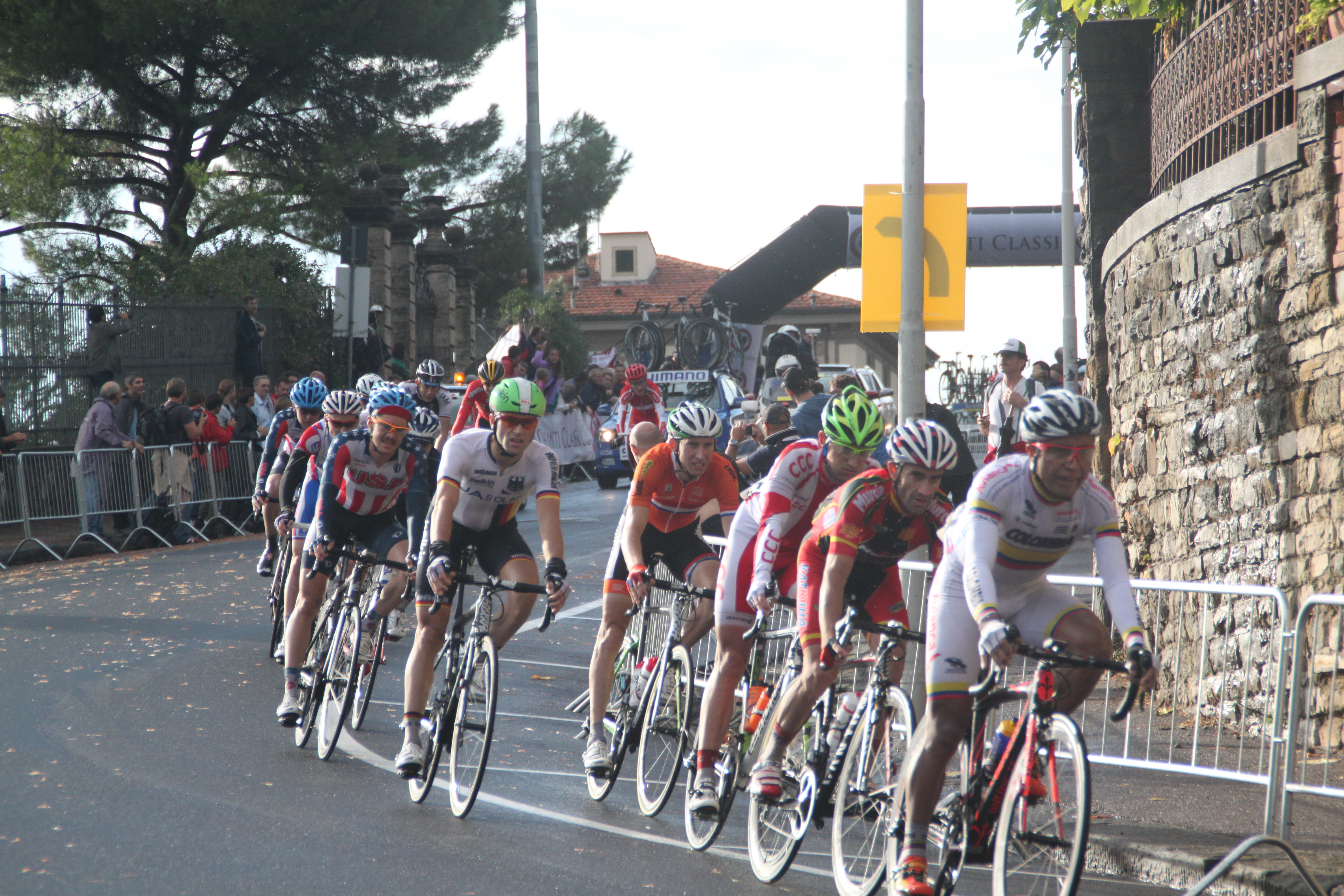 2013 UCI Road World Championships – Men's road race (0975) Bauke Mollema in orange